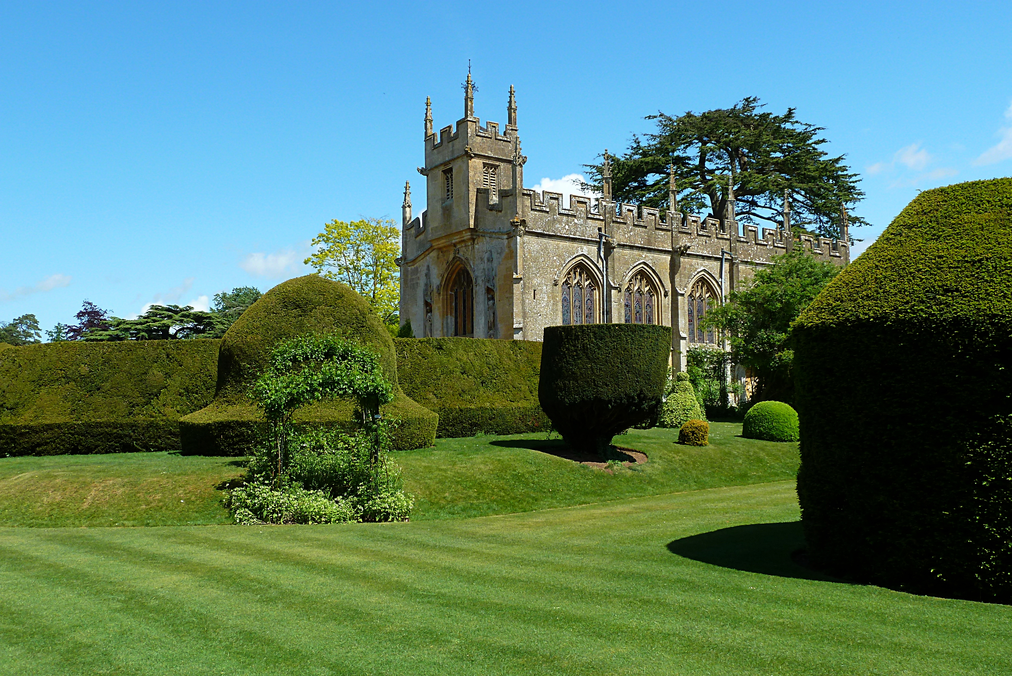 Church at Sudeley Castle